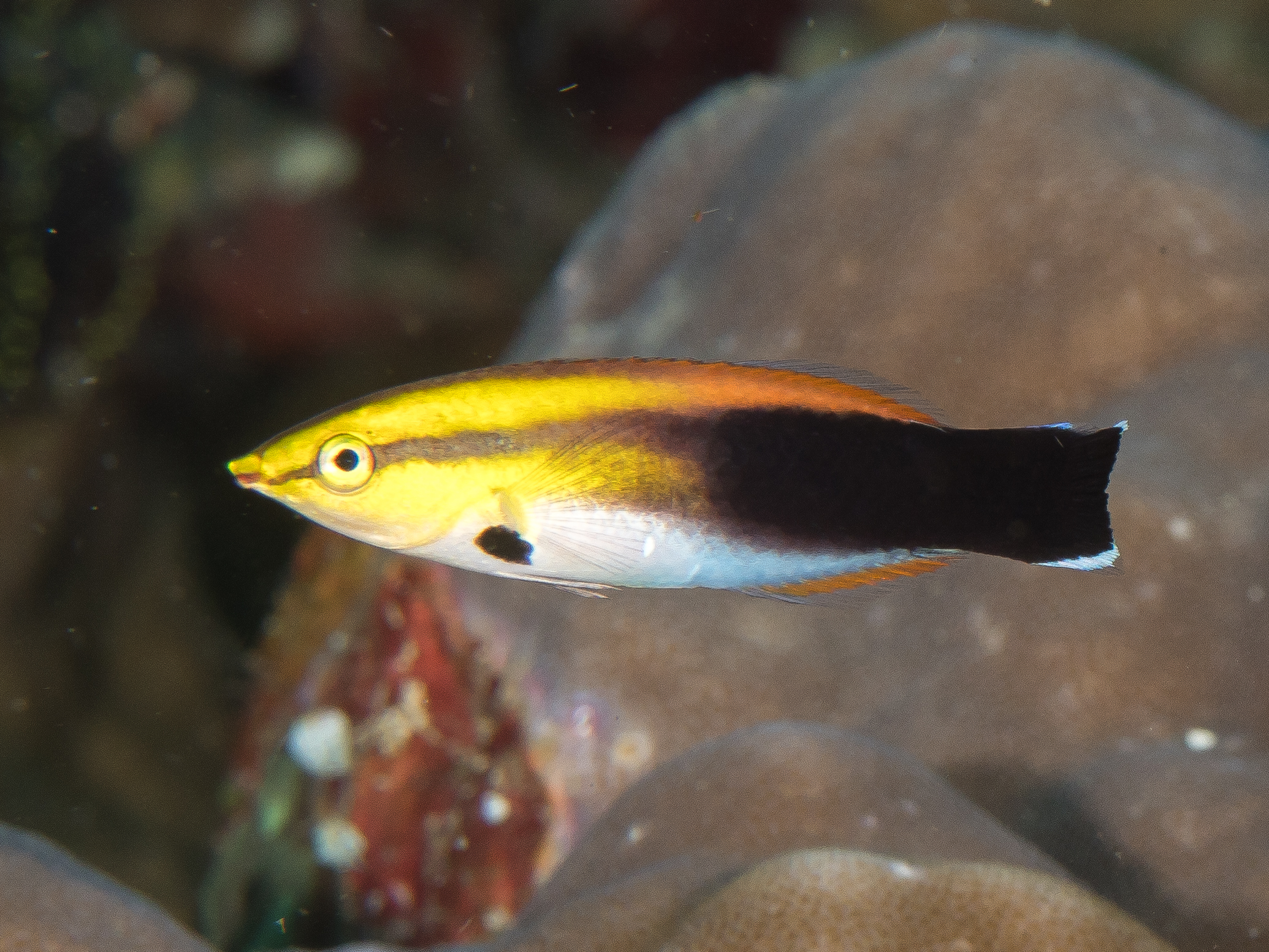 Morotai, Indonesia - Blackspot cleaner wrasse (Labroides pectoralis)